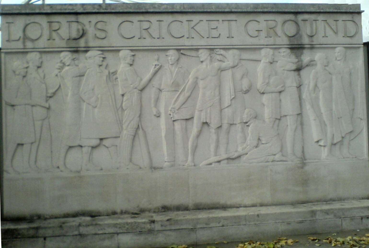 Carved wall outside Lord's CVricket Ground